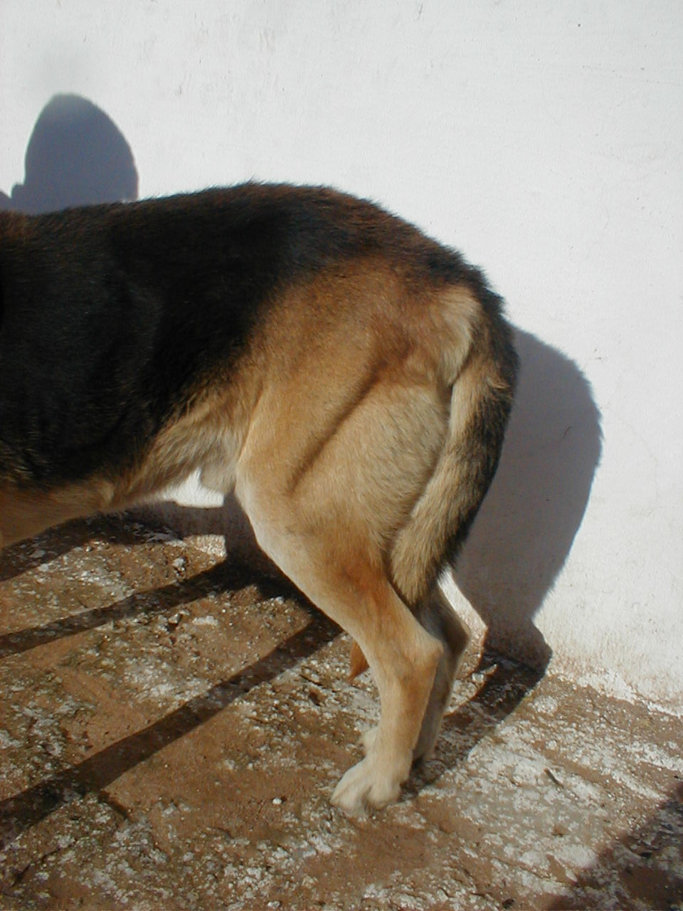 Muscular atrophy of thigh of a crossed shepherd dog with two-year-old hip dispasia. Walon: Fondaedje des tchås del coxhe d' on tchén avou do splawnaedje del hantche dispu deus ans.